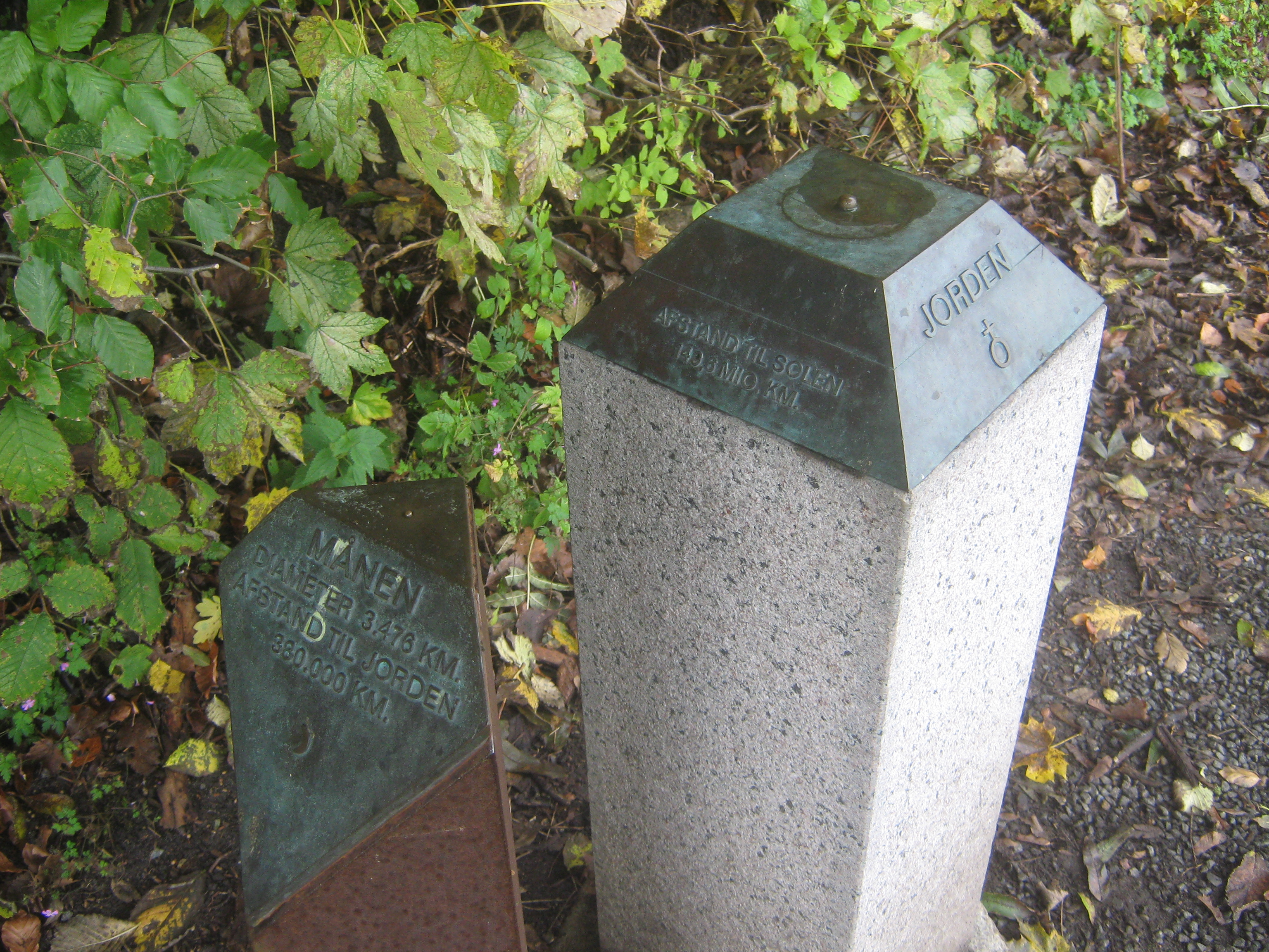 Earth and Moon of the "Planetsti", planets path in Lemvig, Denmark. The circle is the geostationary orbitDansk: Jorden og månen på planetstien i Lemvig, Midtjylland. Cirklen er synkronbanen (36.000 km)